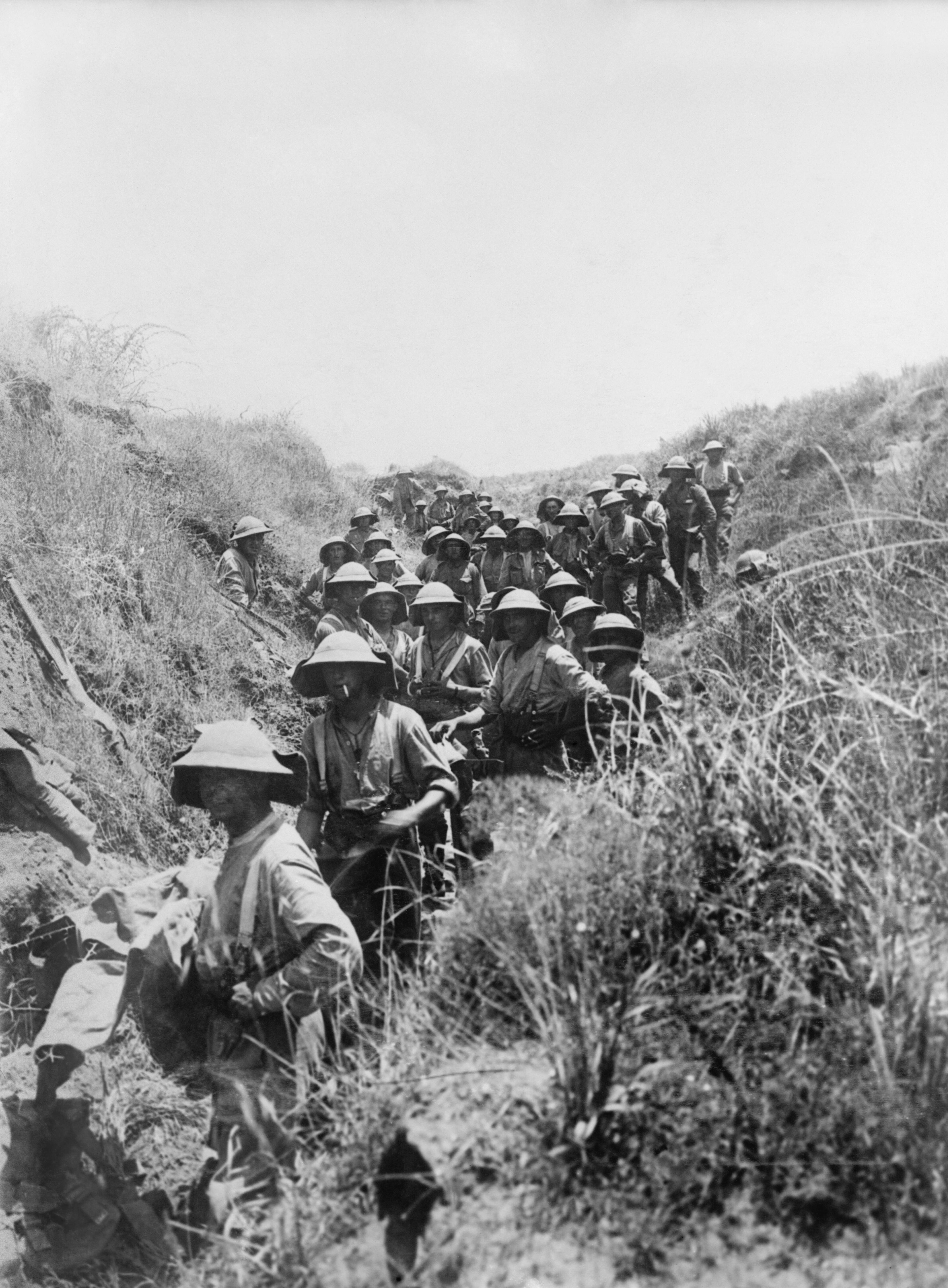 The Advance through Palestine and the Battle of Megiddo: Men of the 2nd Battalion Black Watch in a trench on Brown Ridge after the action at Arsuf on 8 June 1918.